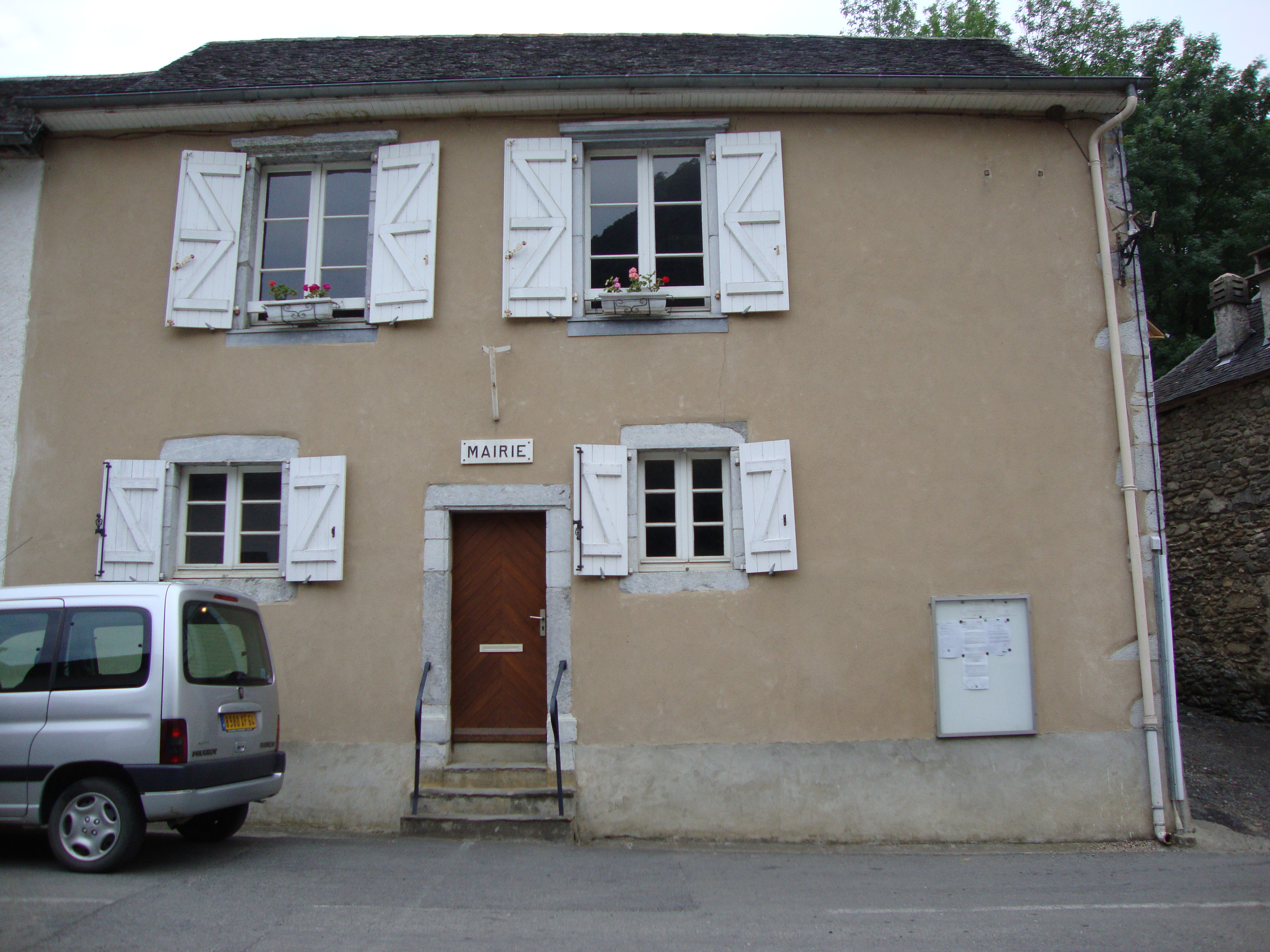 Escot (Pyr-Atl, Fr) town hall